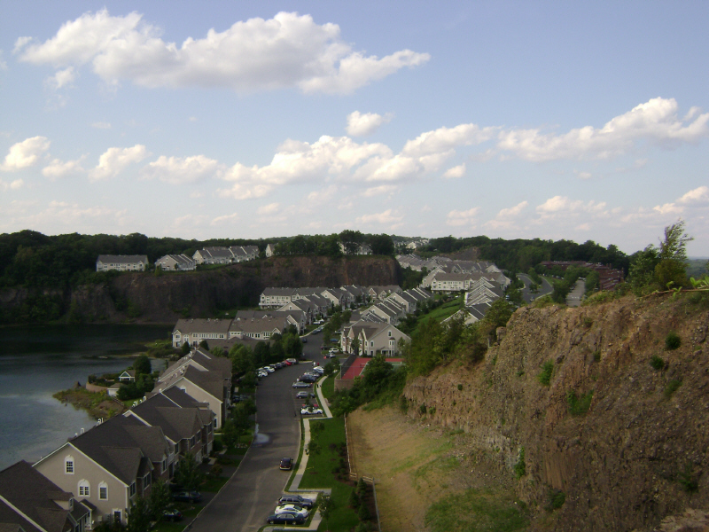 An abandoned quarry on Goffle Hill (First Watchung Mountain) converted into a residential development. Other condominium developments outside the quarry can be seen in the background.